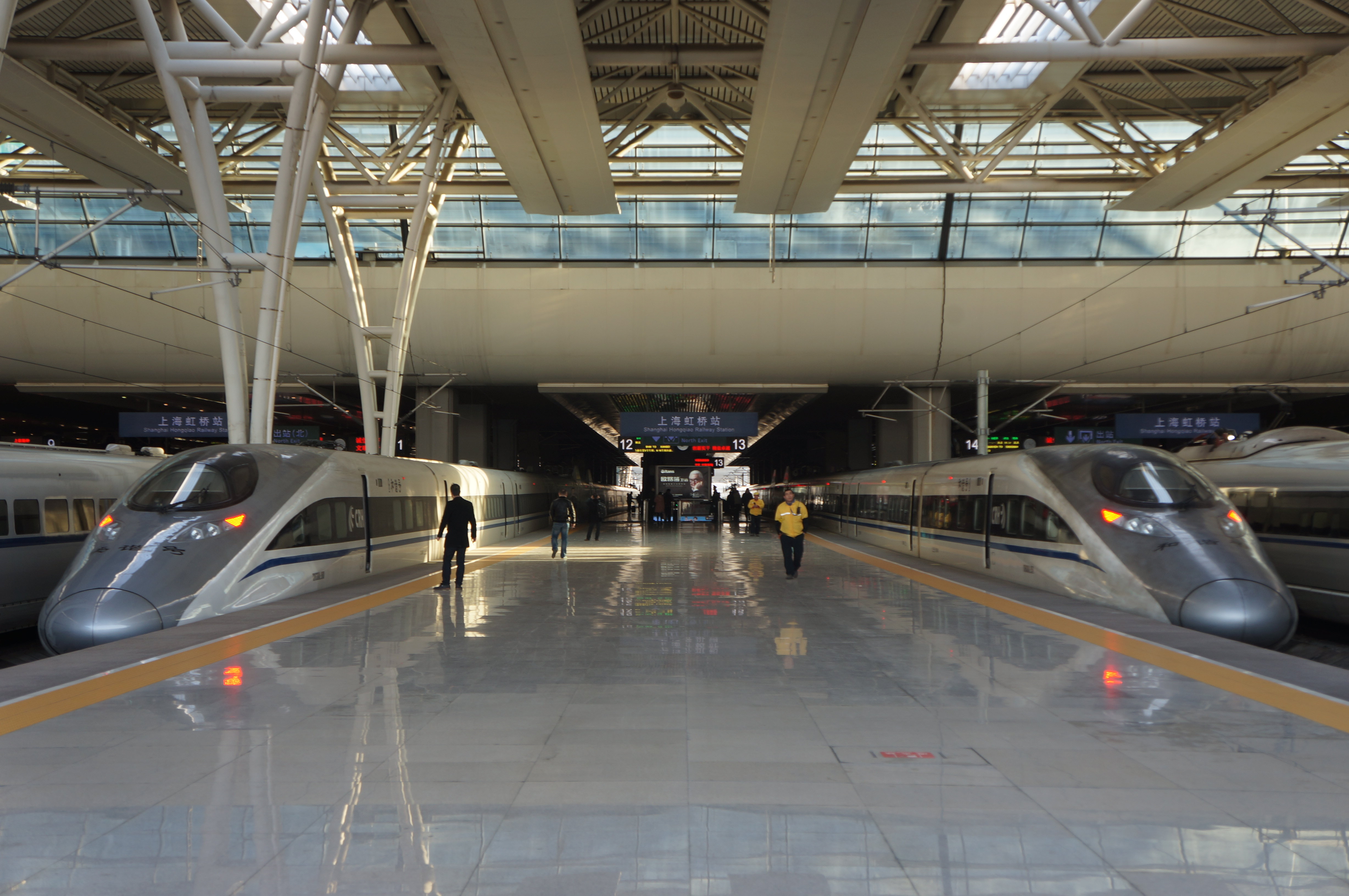 201701 2 CRH380AL EMUs at Shanghai Hongqiao Station. The left one is CRH380AL-2600 by Zhengzhoudong Depot operating G1813-G1936; the right one is CRH380AL-2561 by Shijiazhuang Depot operating G2811-G2812. It is like the reappearance of a scene 4-5 years before.